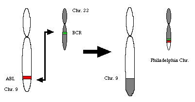 Philadelphia Chromosome Translocation